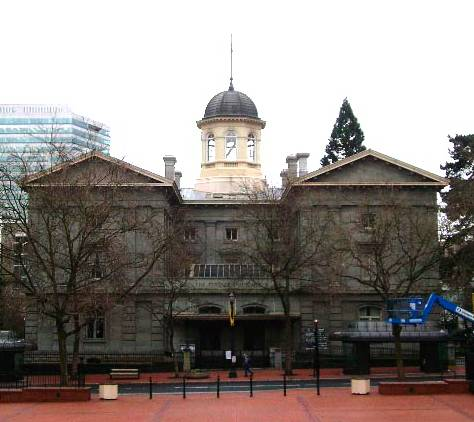 Pioneer Courthouse as seen from Pioneer Courthouse Square